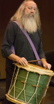 Early Music percussionist